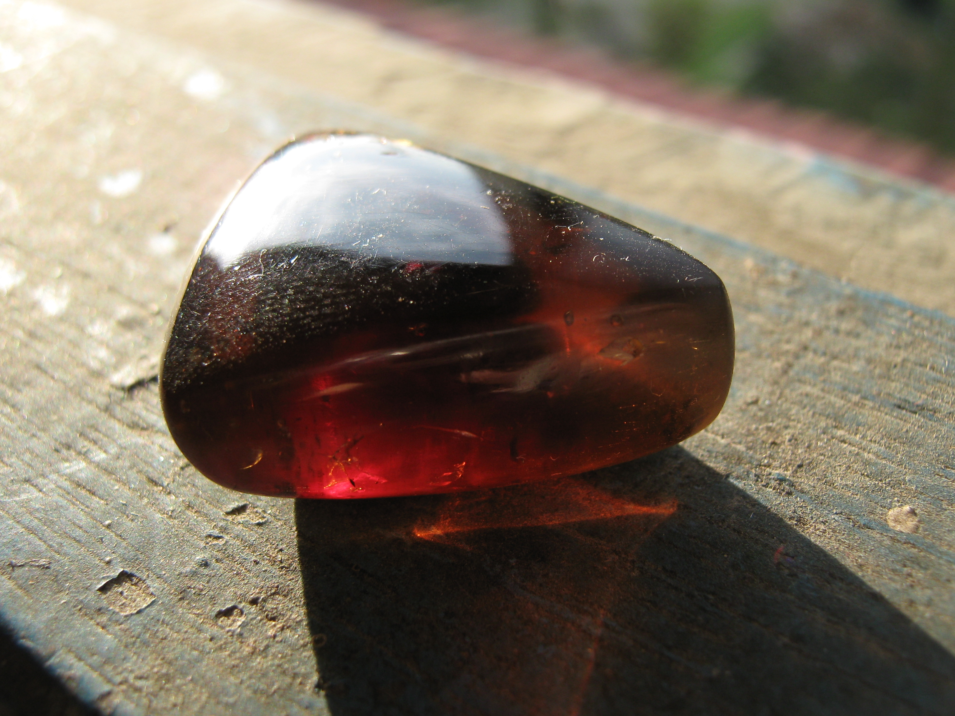 Transparent variety of Borneo amber from Sabah, Malaysia. Highly fossiliferous version of Borneo amber. Wood ant, pine leaflet, midges, bee, spiders and many more are identified in this fossil resin. Age of this resin is unknown but as most Borneo amber dated in Miocene. Some Sabah amber has been dated with minimum ages as 17 millions years old.